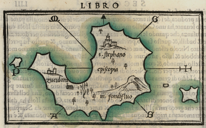 Isolario di Benedetto Bordone nel qual si ragiona di tutte l'isole del mondo, con li lor nomi antichi & moderni, historie, favole, & modi del loro vivere, Venice 1547.